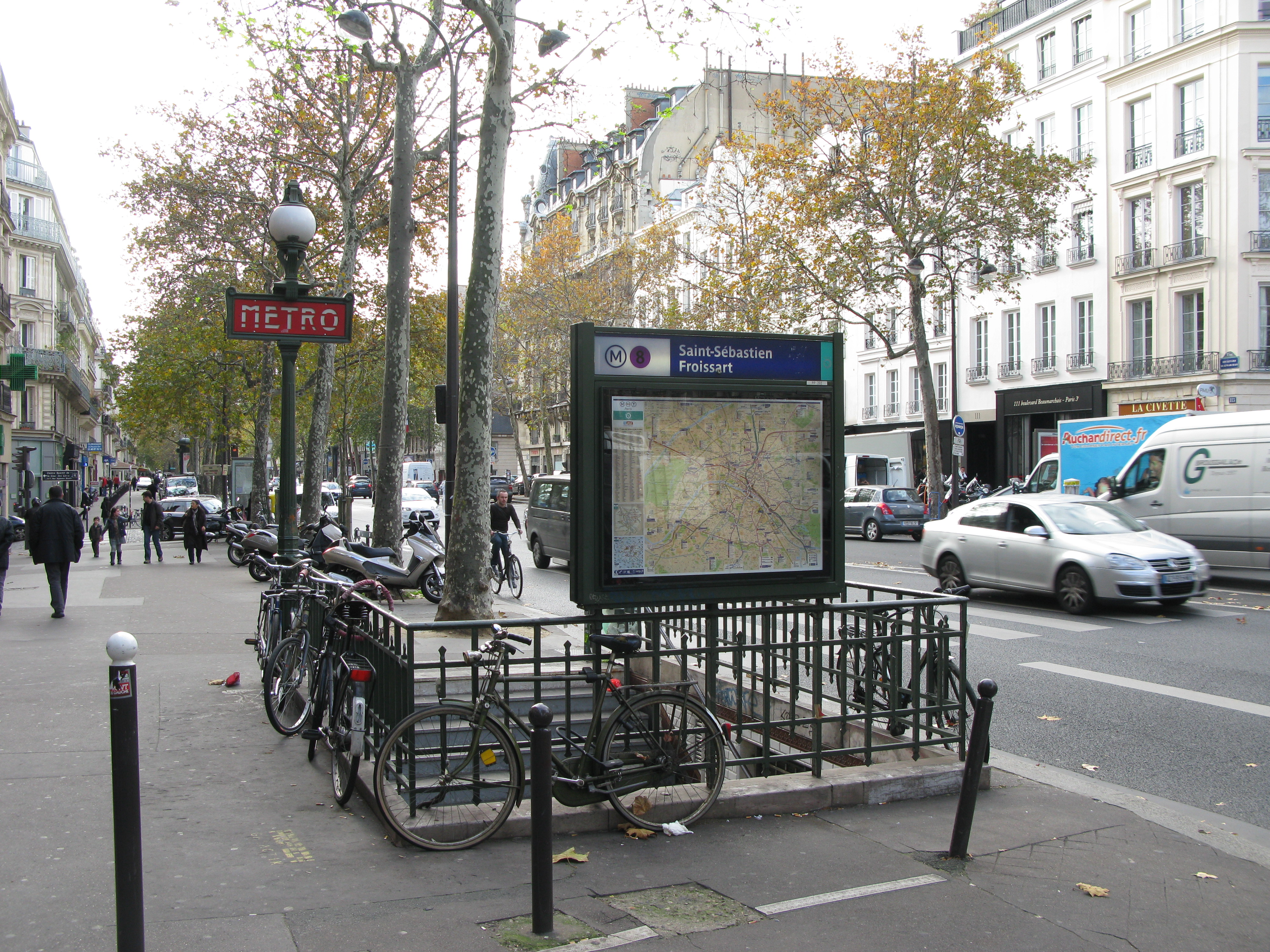 Subway station Saint-Sébastien-Froissart, line 8, exit Saint-Sébastien, Beaumarchais boulevard, Paris.